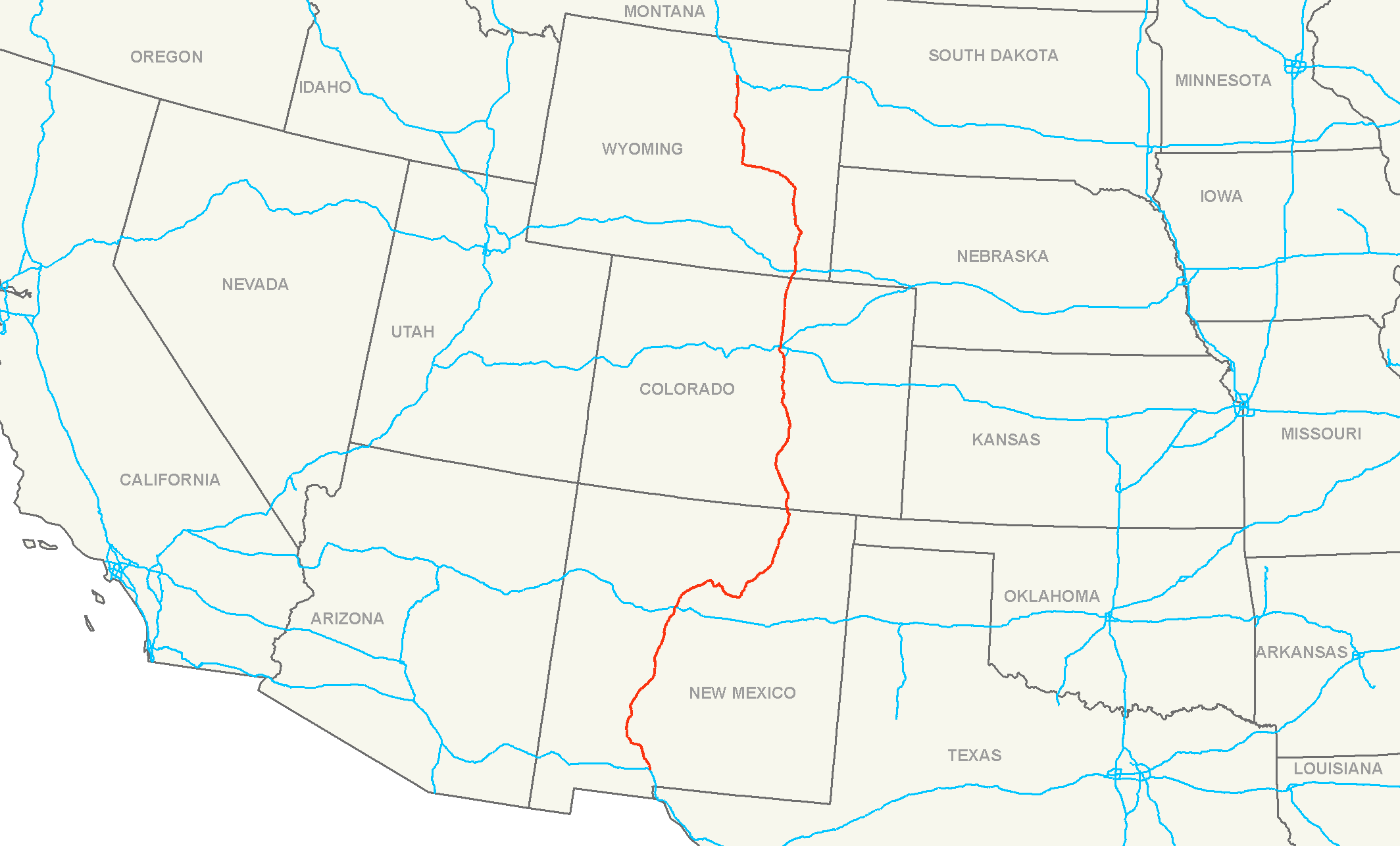 Map of Interstate 25